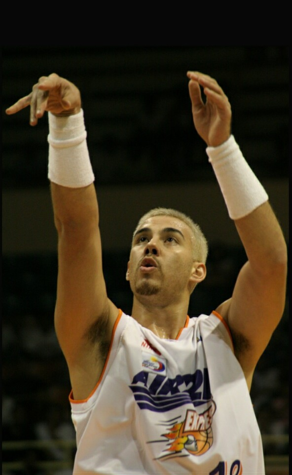 Doug Kramer releases during the Air 21 vs. Barangay Ginebra Dec. 7, 2007